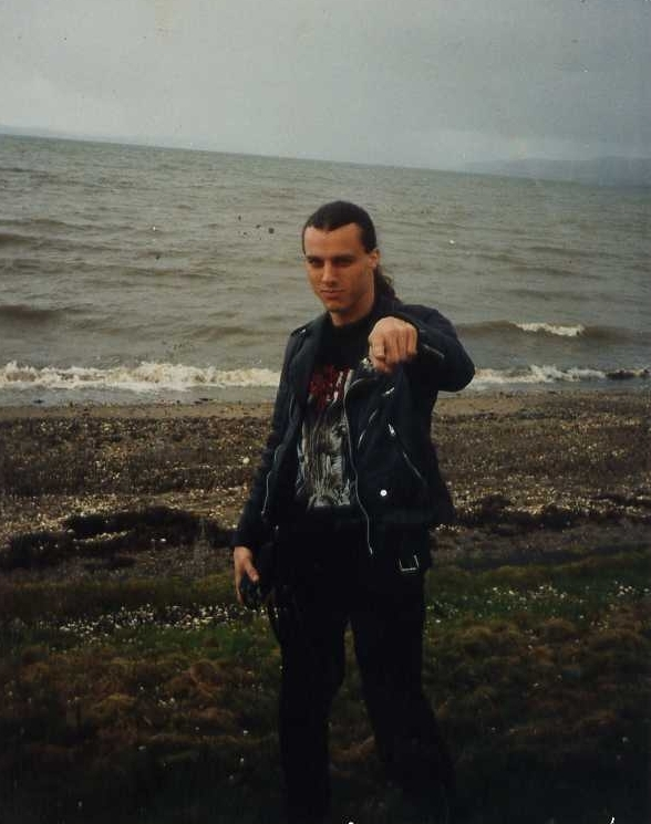 A photo I took myself of Chuck when we first arrived in Scotland on the InHuman Tour of the World. We had got off the tour bus to stretch our legs a little while after getting off the ferry from Larne, Northern Ireland.